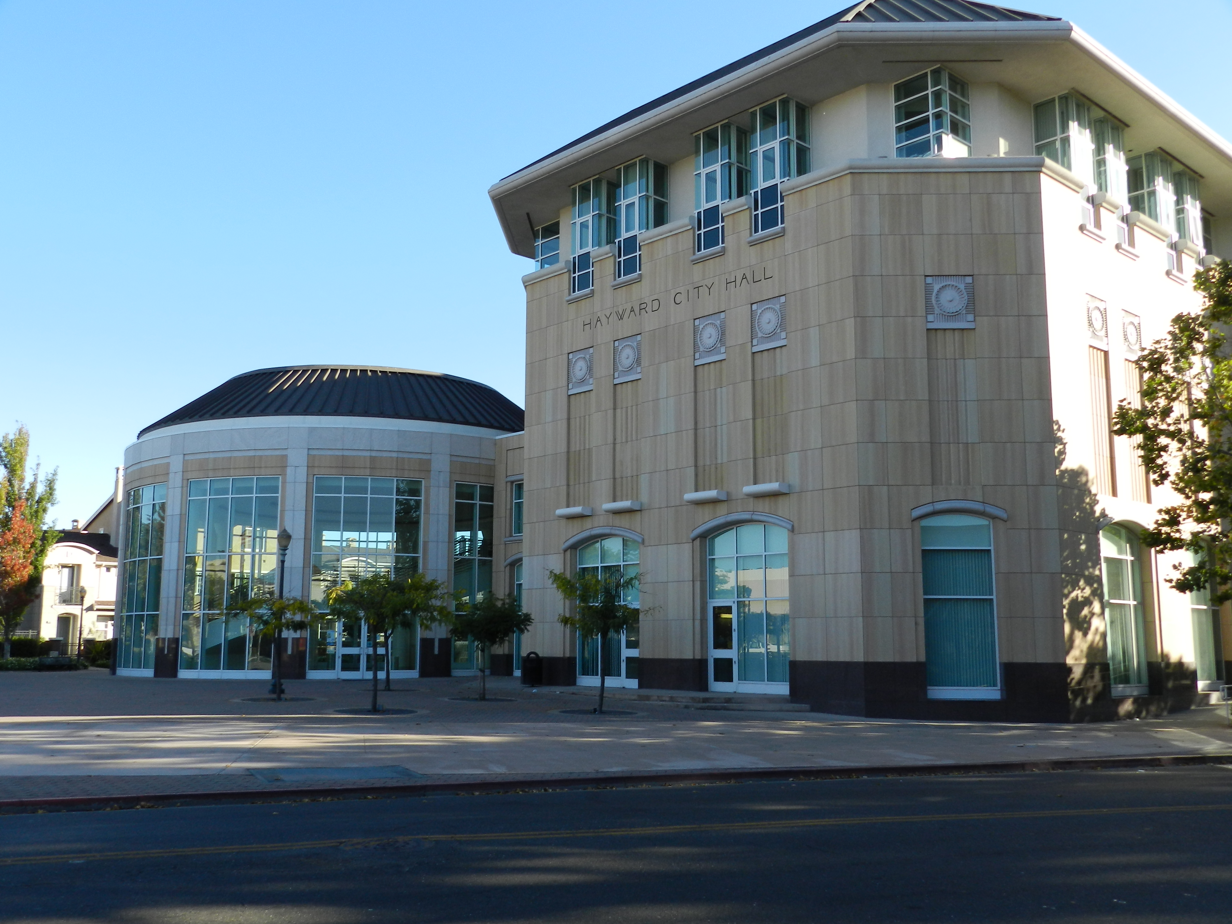 The front facade of the current Hayward California City Hall building